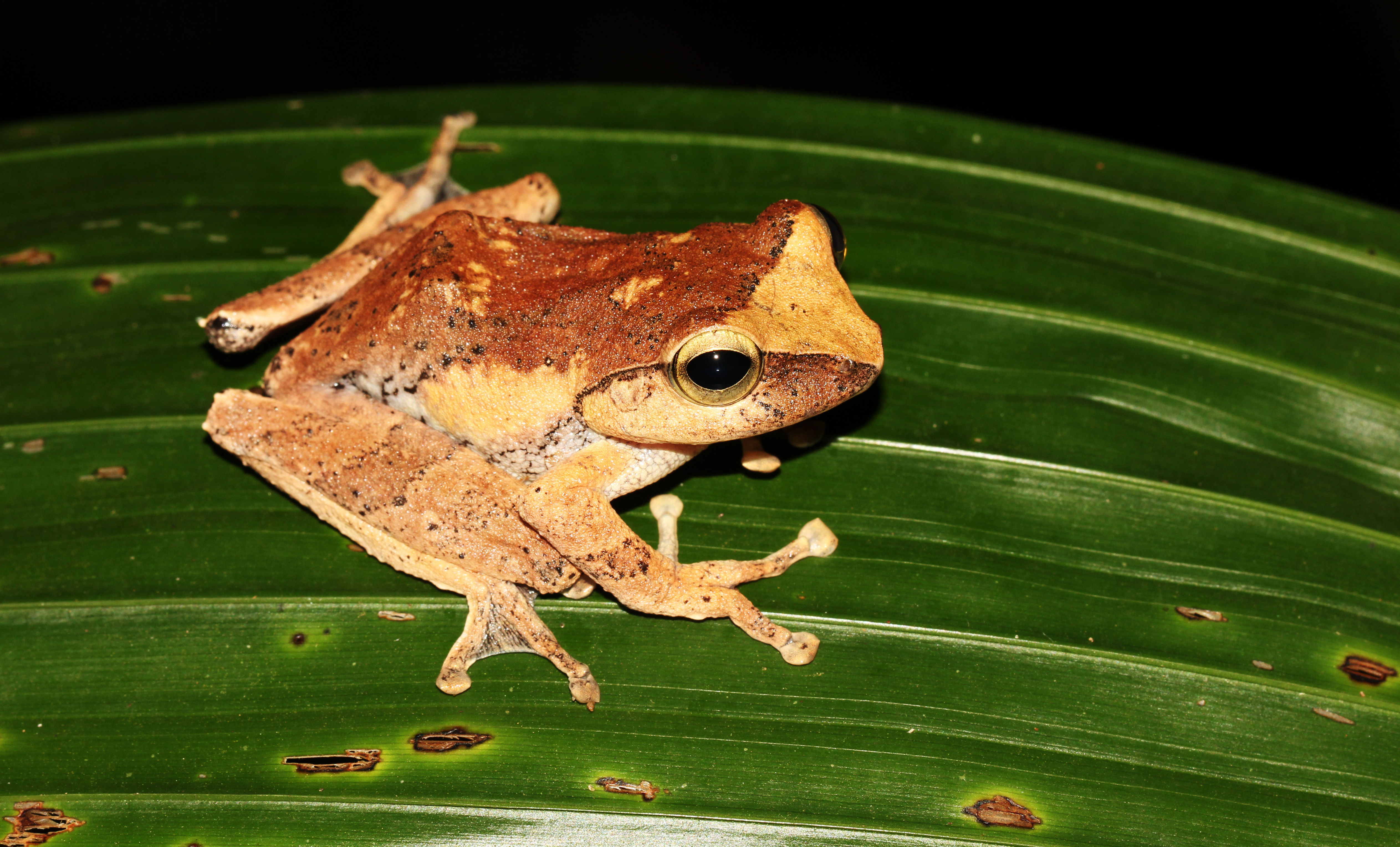 Pseudophilautus reticulatus is an endemic frog found Sri Lanka.